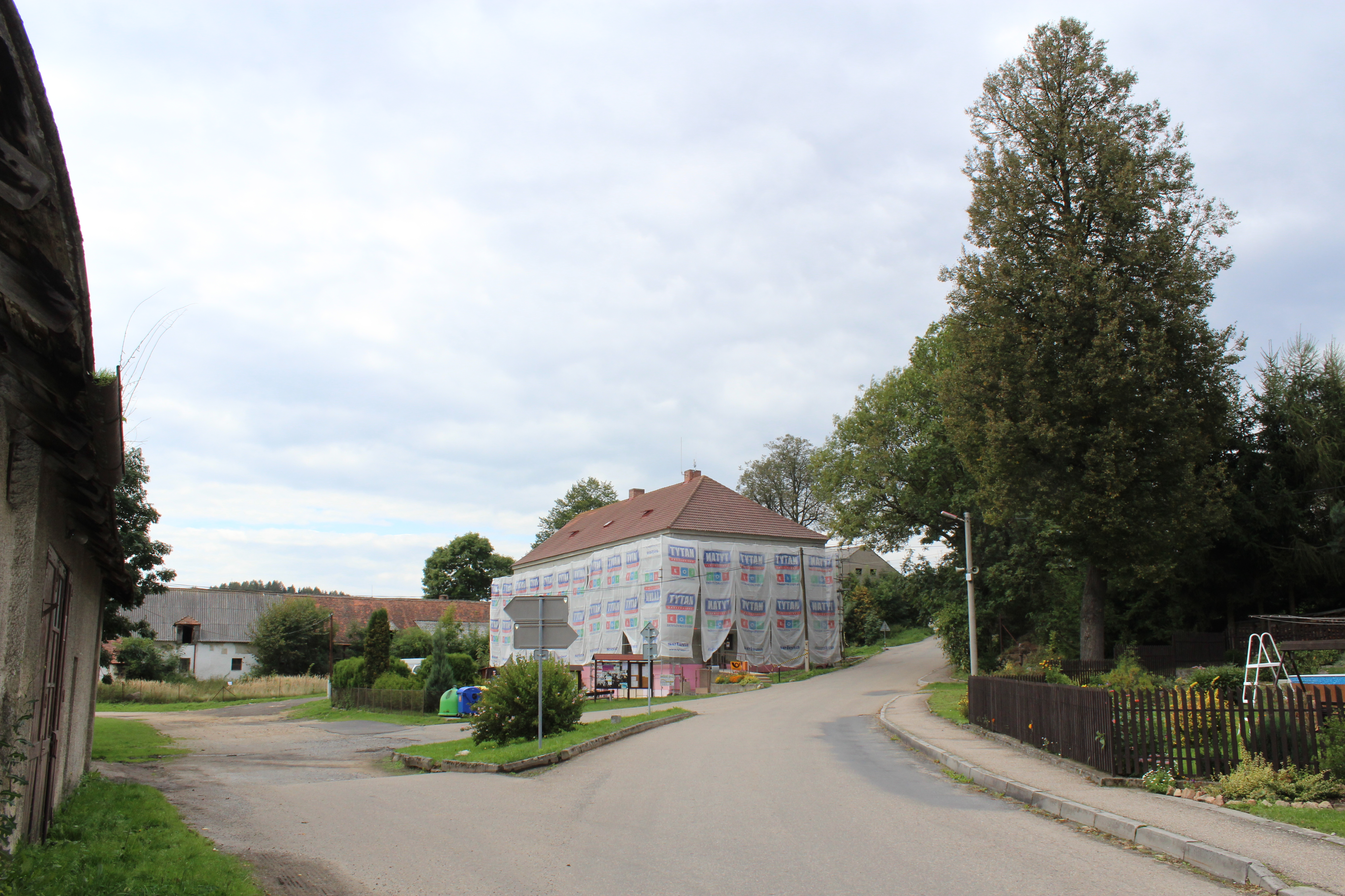 Fortress (castle) Popovice - former farmyard Popovice (Benešov District). Pig farm (former cowshed) Popovice. Municipally office in Popovice. Fire station in Popovice (Benešov District).Former granary in Popovice.